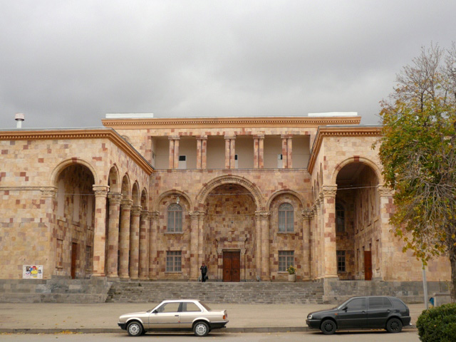 The Palace of Culture in Vanadzor city.